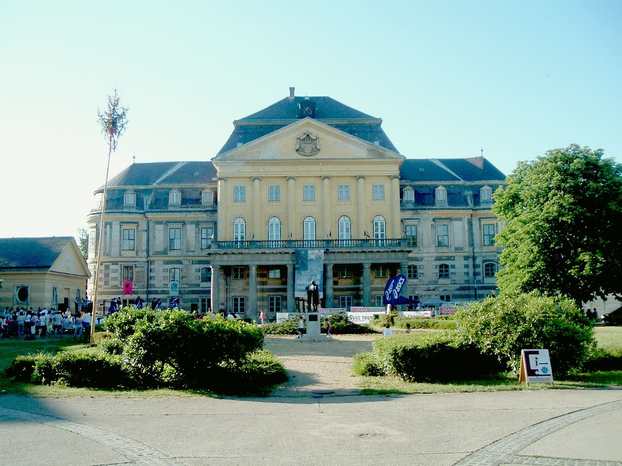 Körmend Batthyány palace